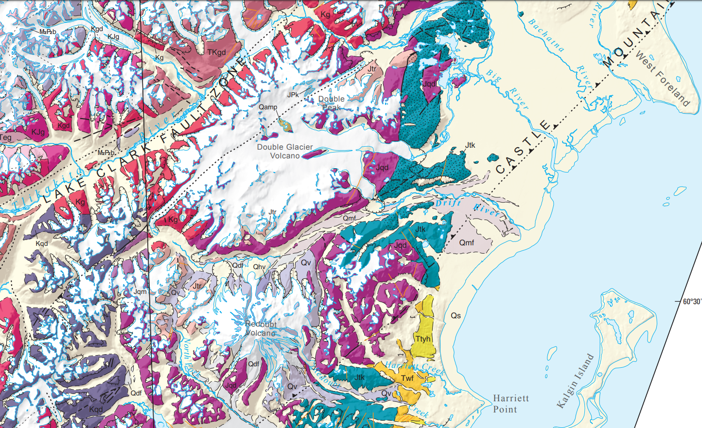 Redoubt Volcano geologic map. Jtk is the Jurassic Talkeetna Formation, Jqd is Jurassic quartz diorite, tonalite and diorite, Kqd is Cretaceous quartz diorite, Kg are Cretaceous plutonic rocks, Qdf are Quaternary (Holocene) debris flows, Qv are QUaternary volcanic rocks, Qhv are Quaternary (Holocene) volcanic rocks, Qmf are Quaternary (Holocene) volcanic rubble and mudflows, Twf is the Tertiary (eocene and Paleocene) West Foreland Formation, and Ttyh is the Tertiary (Miocene and Oligocene) Kenair Group Tyonek Formation and Hemlock Conglomerate